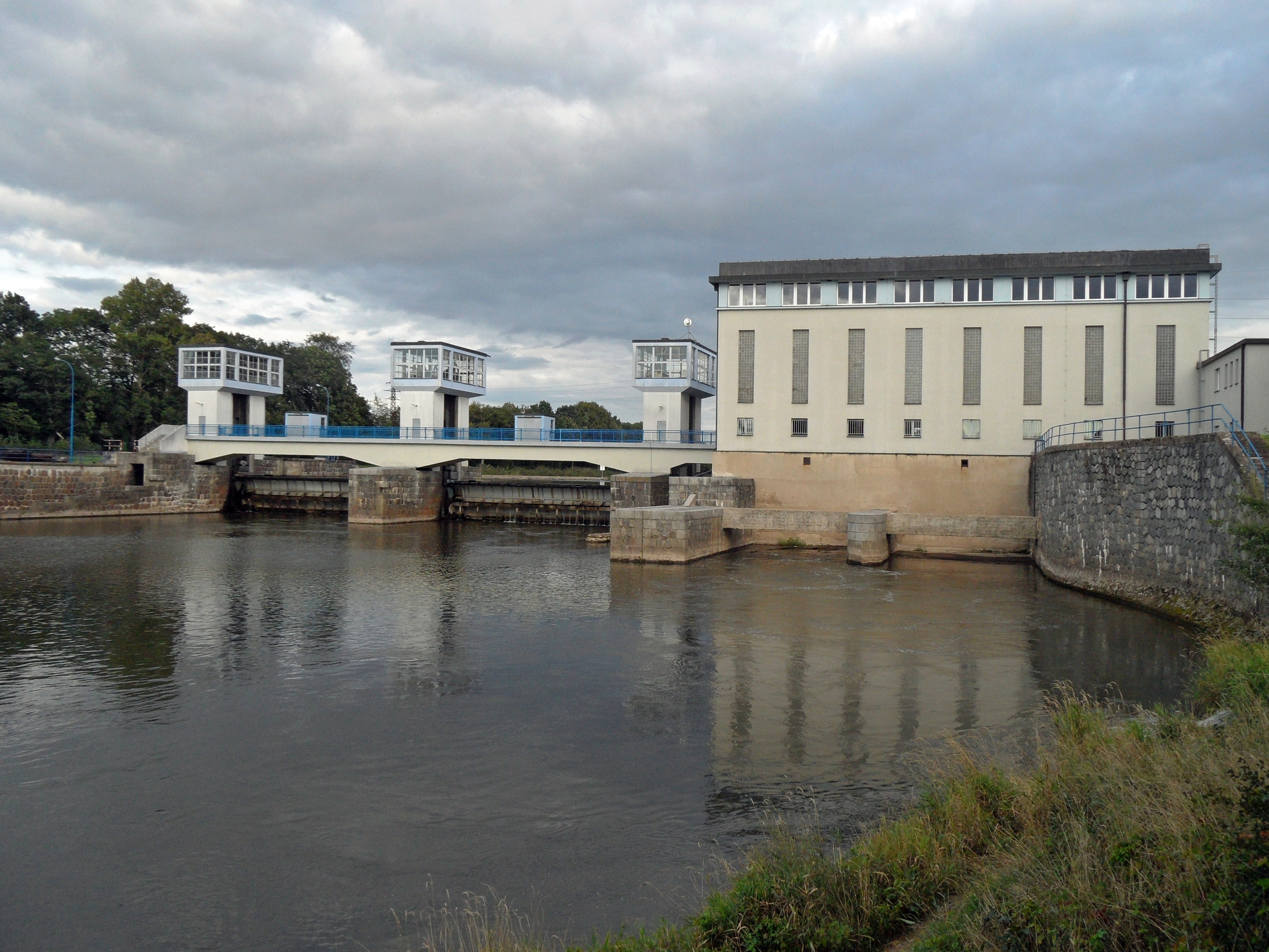 Lock Srnojedy B. Lower Part, Overview. Pardubice District, the Czech Republic.